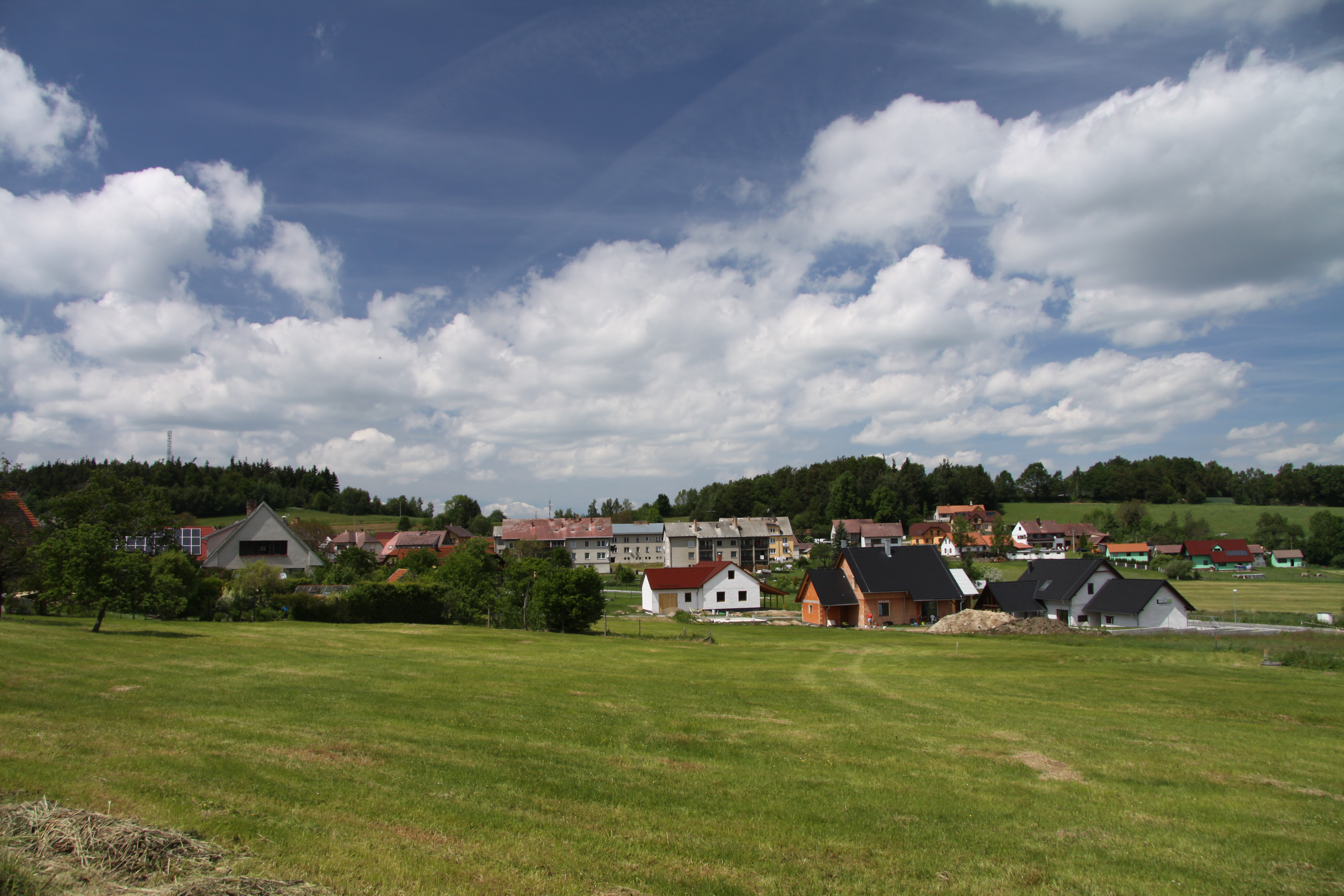 View to the Nebahovly village, Prachatice District, Czech Republic - Google Maps - Google Earth